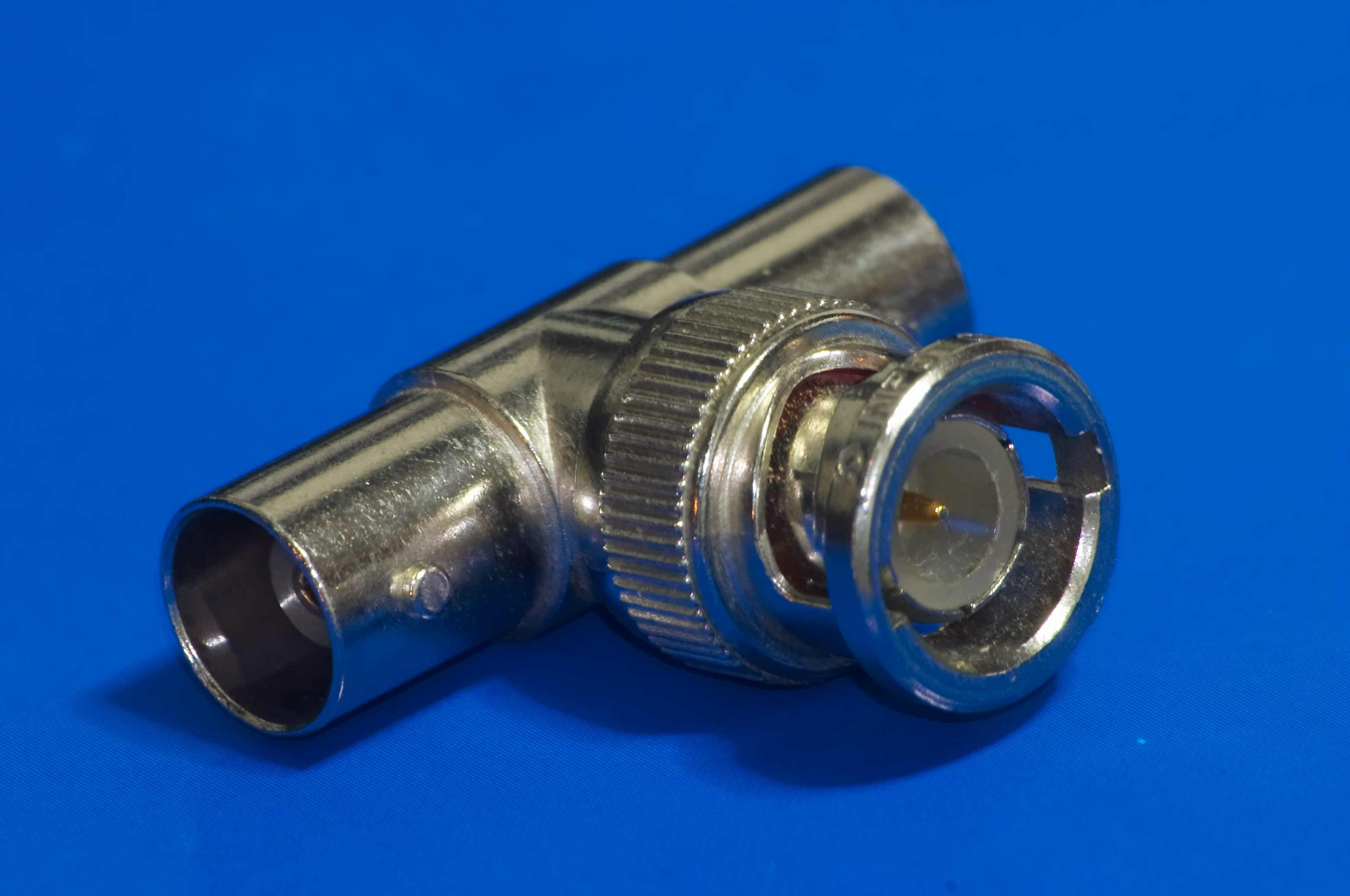 BNC T-connector.